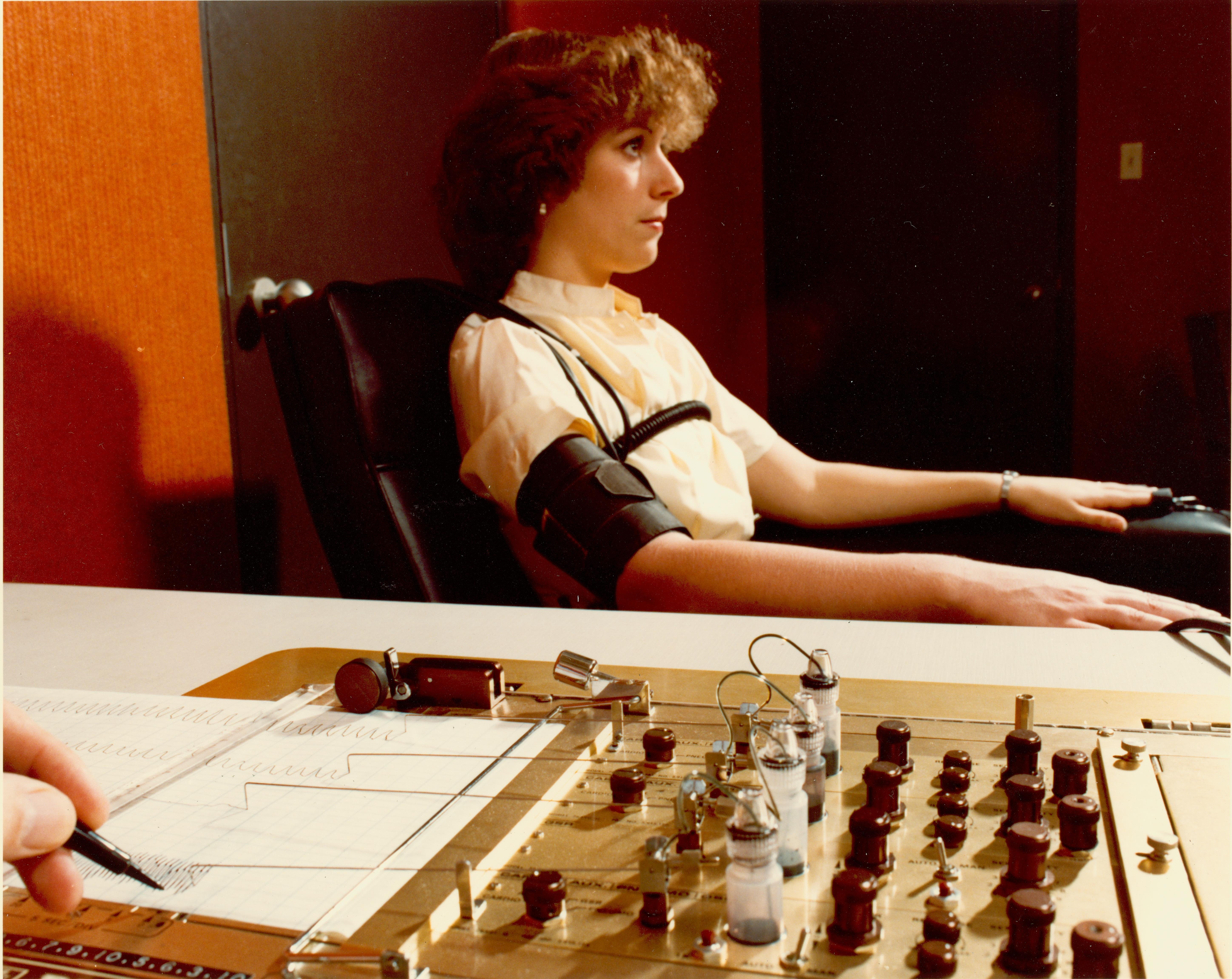 Demonstrating the administration of the polygraph, the polygrapher making notes on the readouts. Location: Washington, D.C. Date range: 01/01/1970 to 12/31/1979